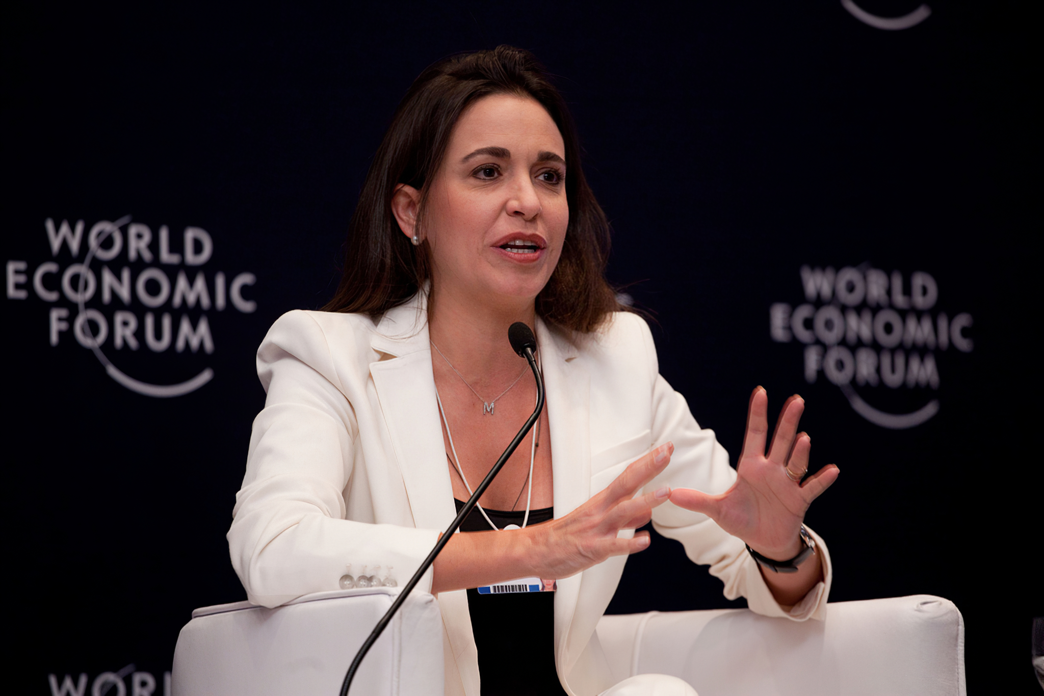 RIO DE JANEIRO/BRAZIL, 29APR11 -Maria Corina Machado, Member of the Parliament, Venezuelan National Assembly, Venezuela captured during the World Economic Forum on Latin America in Rio de Janeiro, Brazil, April 29, 2011. Copyright World Economic Forum ( by Bel Pedrosa